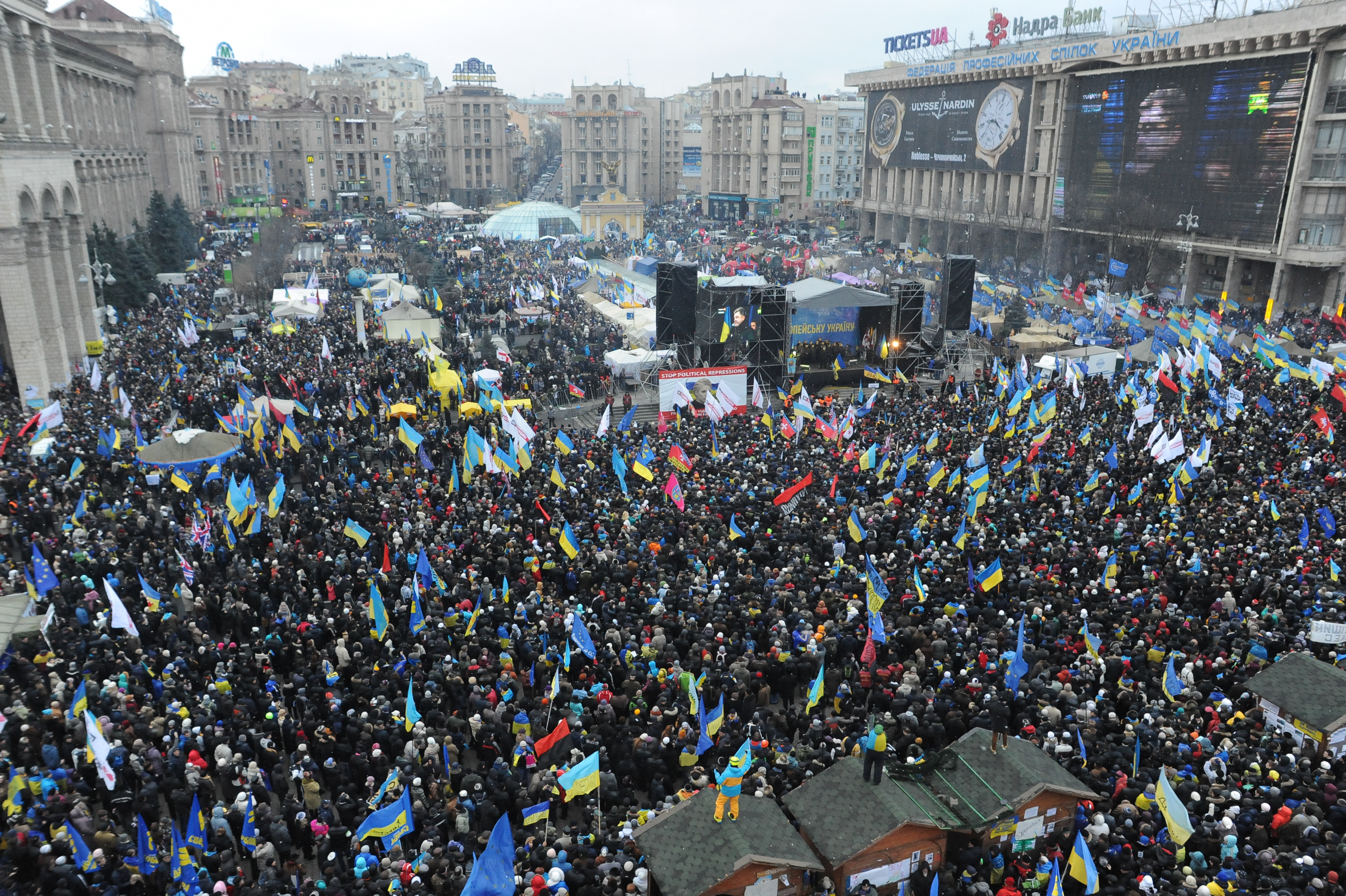 Euromaidan panoramic view taken from the top of the Revolution Christmas tree. December 8, 2013.